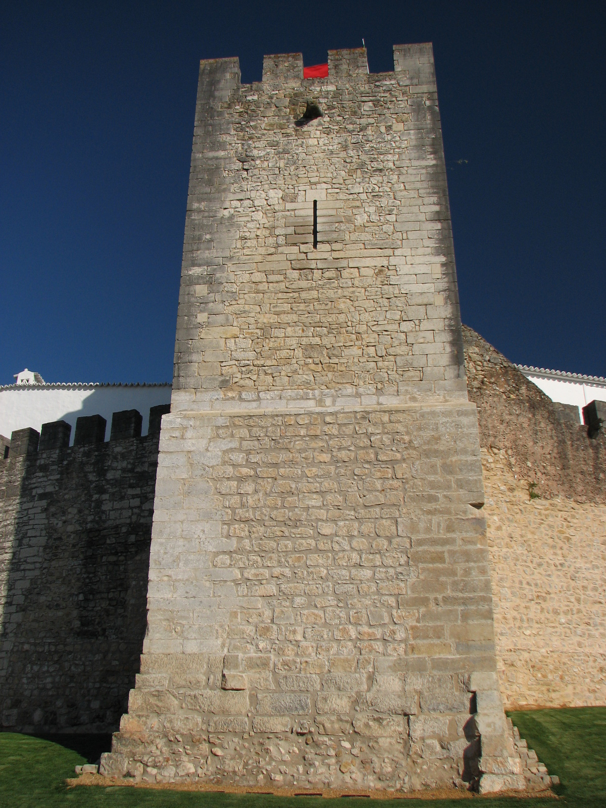 Loule Castle - The Algarve, Portugal